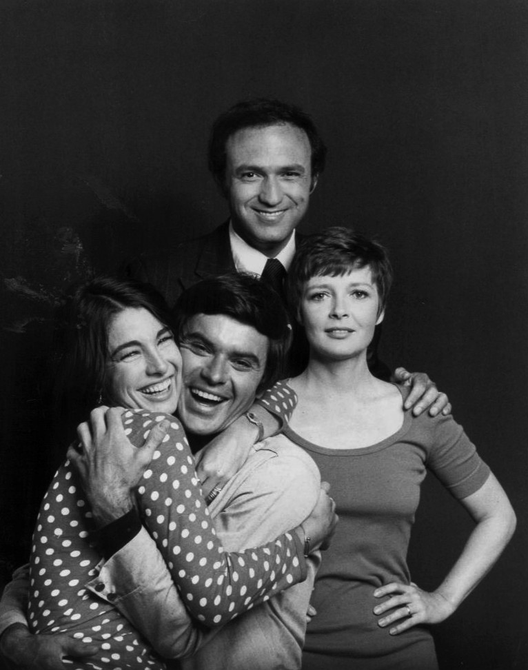 Cast photo from the television comedy Bob & Carol & Ted & Alice. From left-Anne Archer, Robert Urich, David Spielberg, Anita Gillette.